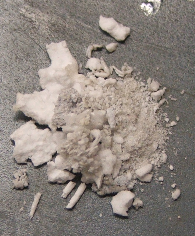 Magnesium hydroxide in a container